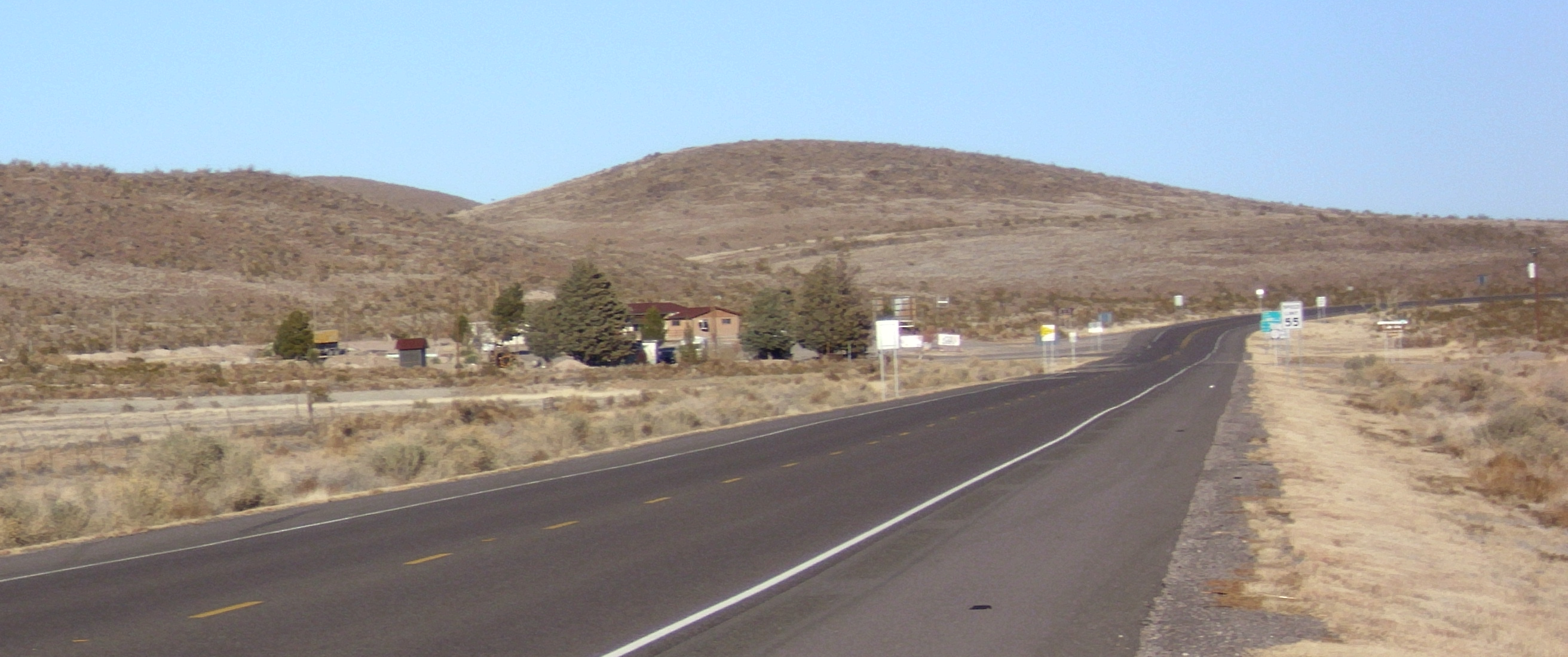 Photograph of the settlement at Nutt, New Mexico, taken looking northeast. The road is New Mexico Route 26. Nutt is located in Luna County, southern New Mexico.